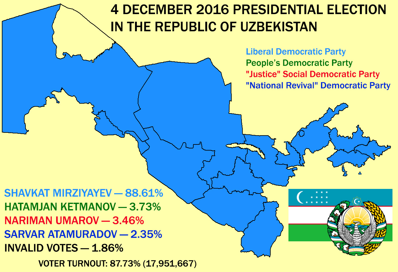 Presidental election in Uzbekistan 2016 December 4. Shavkat Mirziyoyev (from Liberal Democratic Party) - 88.61%, Hotamjon Ketmonov (from People's Democratic Party) - 3.73%, Narimon Umarov (from Justice Social Democratic Party) - 3.46%, Sarvar Otamurodov (from National Revival Democratic Party) - 2.35%.